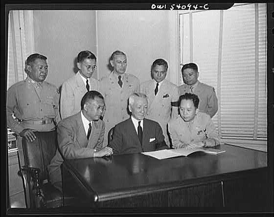 Washington, D.C. The new president of the Philippines shown with the new cabinet. Front row; left to right: Jaime Hernandez, Secretary of Finance; President Sergio Osmena; Colonel Carlos P. Romulo, Resident Commissioner and Secretary of Information. Back row, left to right: Colonel Mariano A. Erana, Judge Advocate General of the Army of the Philippines in charge of the Department of Justice, Labor, and Welfare; Dr. Arturo B. Rotor, Secretary of Agriculture and Commerce; Ismael Mathay, Budget and Finance Commissioner; Colonel Alejandro Melchor, Under Secretary of National Defense representing General Basilio Valdesm the Secretary of National Defense